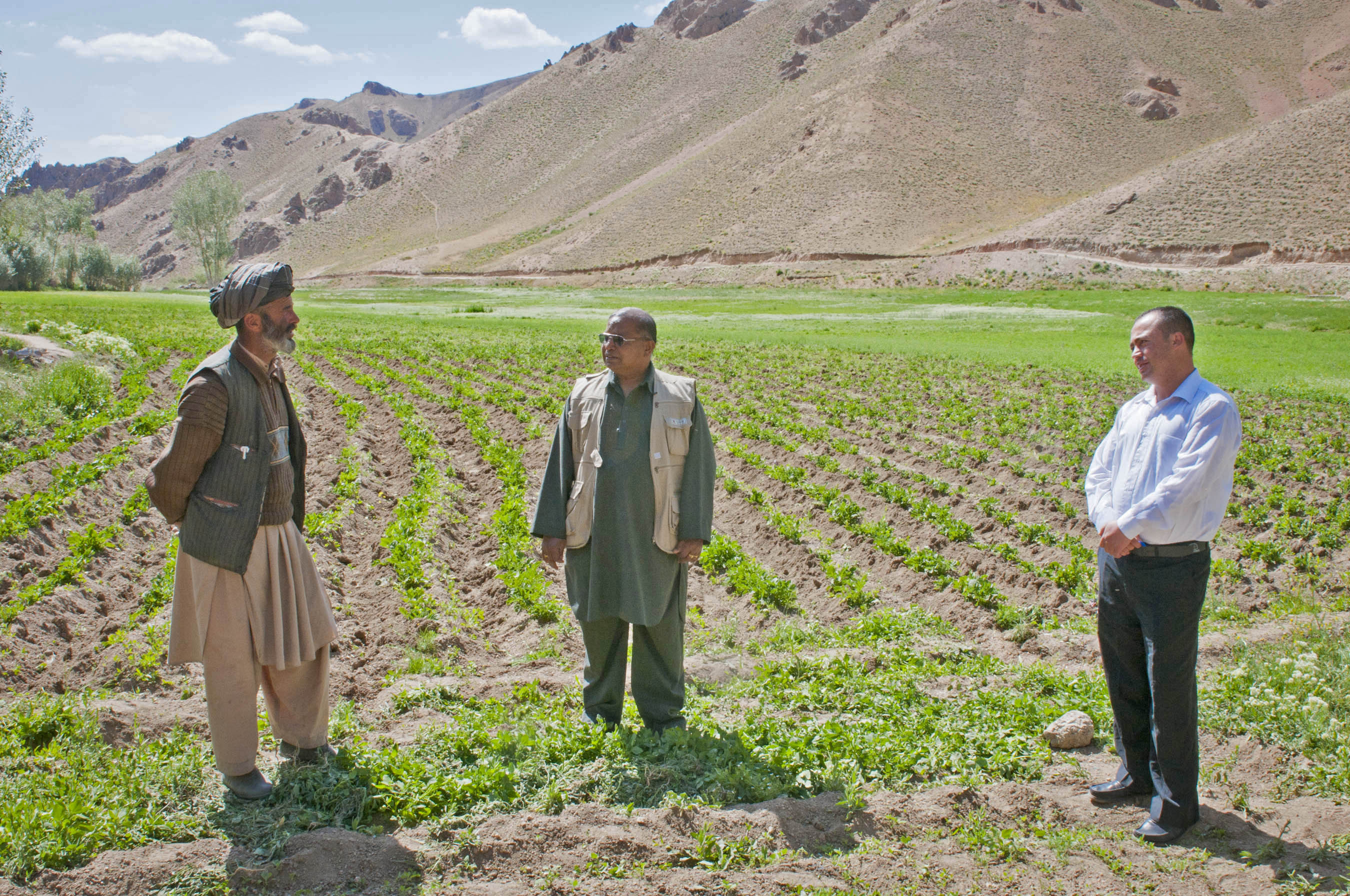 Dr. Shrikant Jagtap (center), the senior agriculture adviser for the Bamyan Provincial Reconstruction Team, and his interpreter, Hamidullah, discuss agricultural programs with Saywed Khadin, a potato farmer, in front of one of his fields. Potatoes have become the main cash crop for the province, contributing millions of dollars to its economy every year. (Photo ID: 614472)